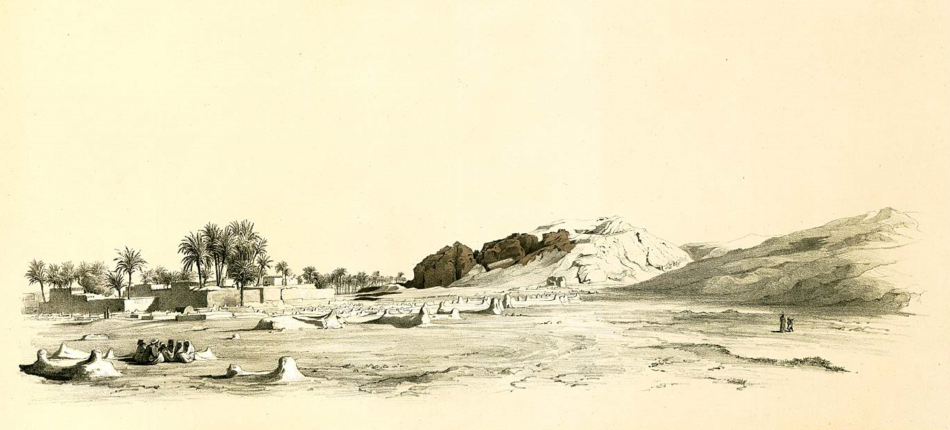 View of the Lepsius I pyramid from north west